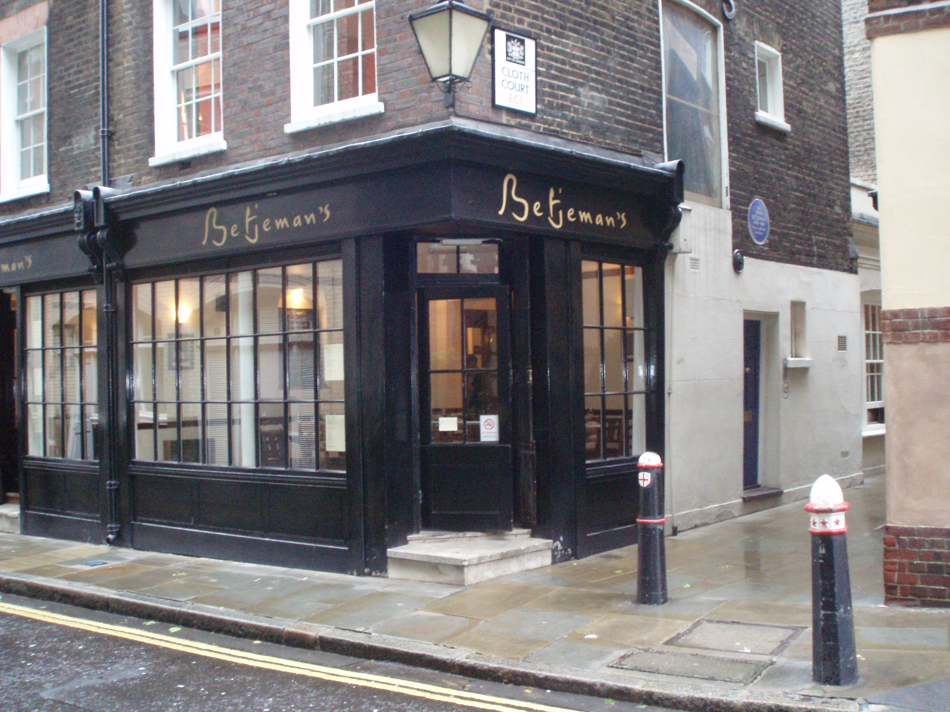 Photo tkn 23-8-07